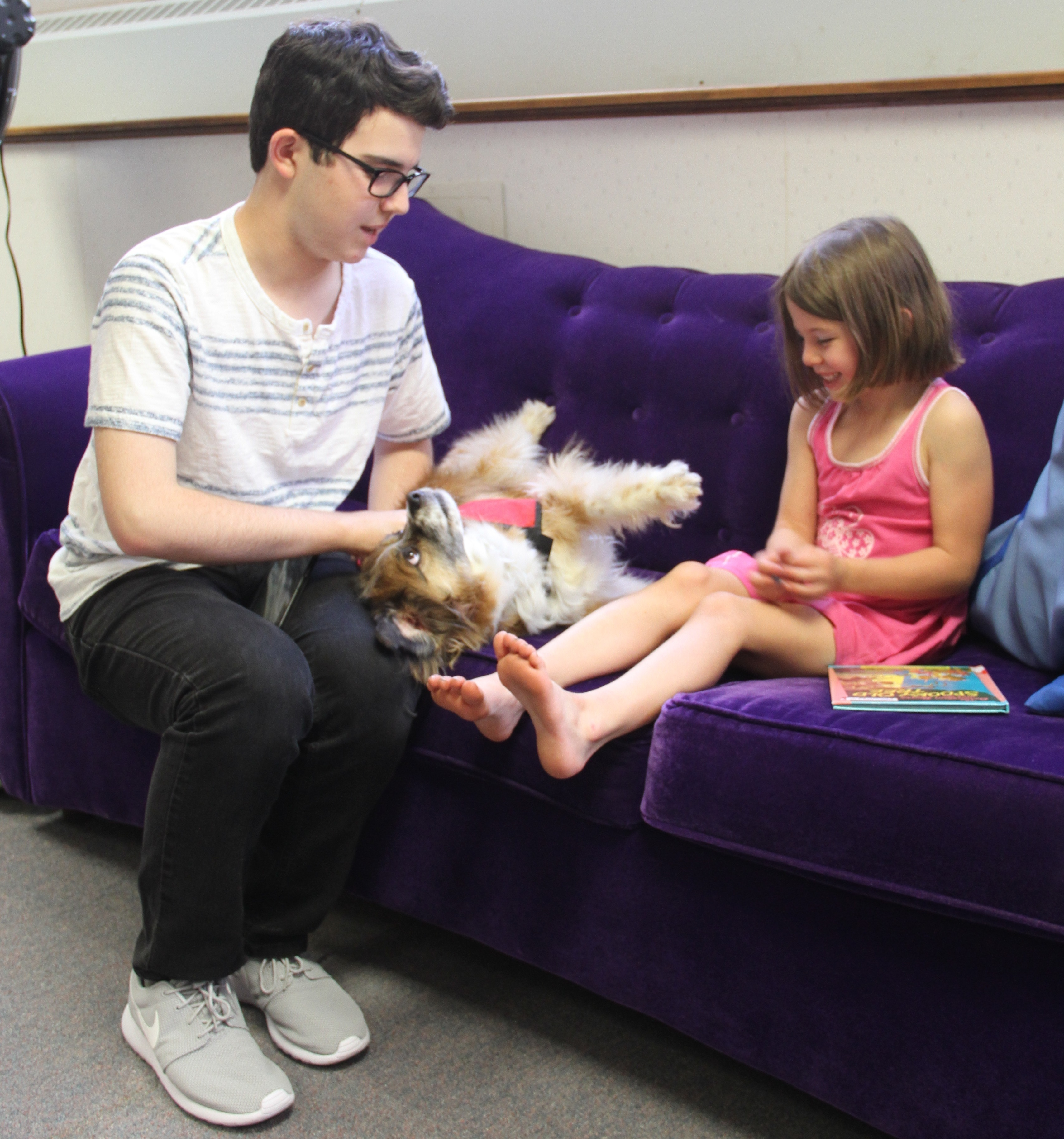 Joshua Beirich, left, certified junior dog handler, introduces Toby, a certified therapy dog, to Lilie Foat, 6, during a Paws for Reading session at Mickelsen Community Library on Fort bliss March 16. Unit: Fort Bliss Public Affairs Office DVIDS Tags: Fort Bliss; reading; therapy dog; military child